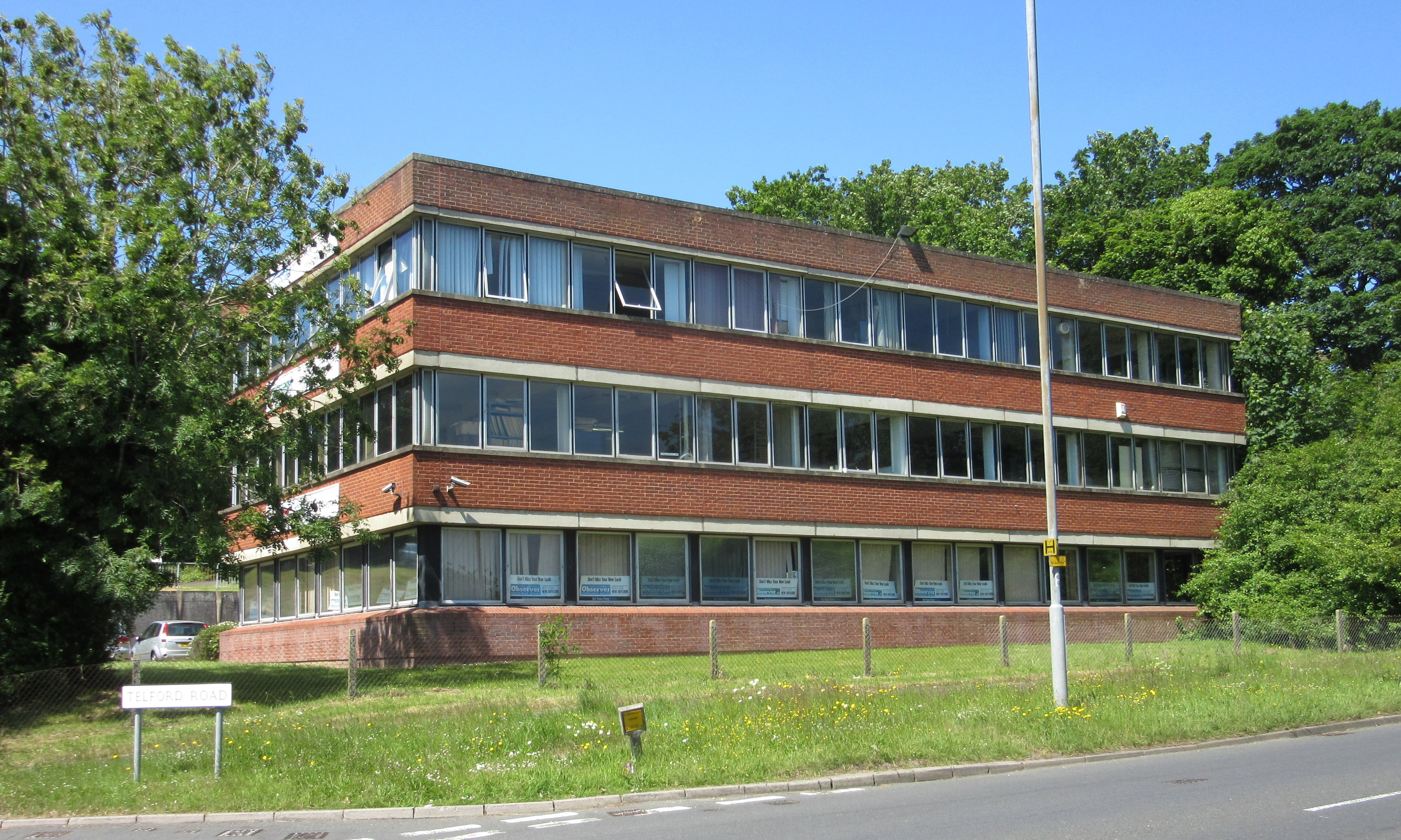 Woods House, Telford Road, Hollington, Borough of Hastings, East Sussex, England. The former headquarters of the Hastings & St. Leonards Observer newspaper.